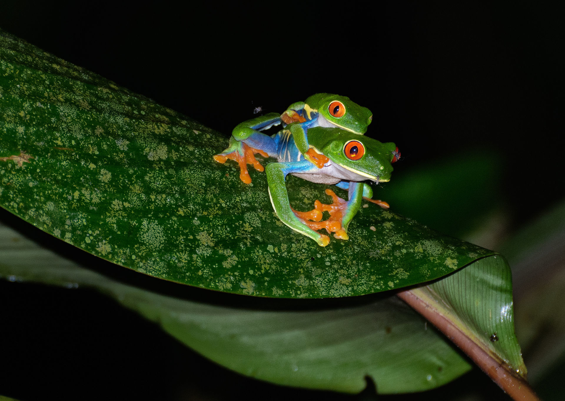 A couple of Red Eyed Frogs (Agalychnis callidryas) mating on a leaf. The male is the smaller one on the top.